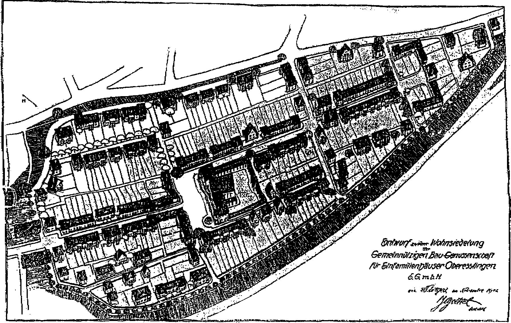 sketch Garden City Oberesslingen 1912, architect Jakobus Goettel from Stuttgart